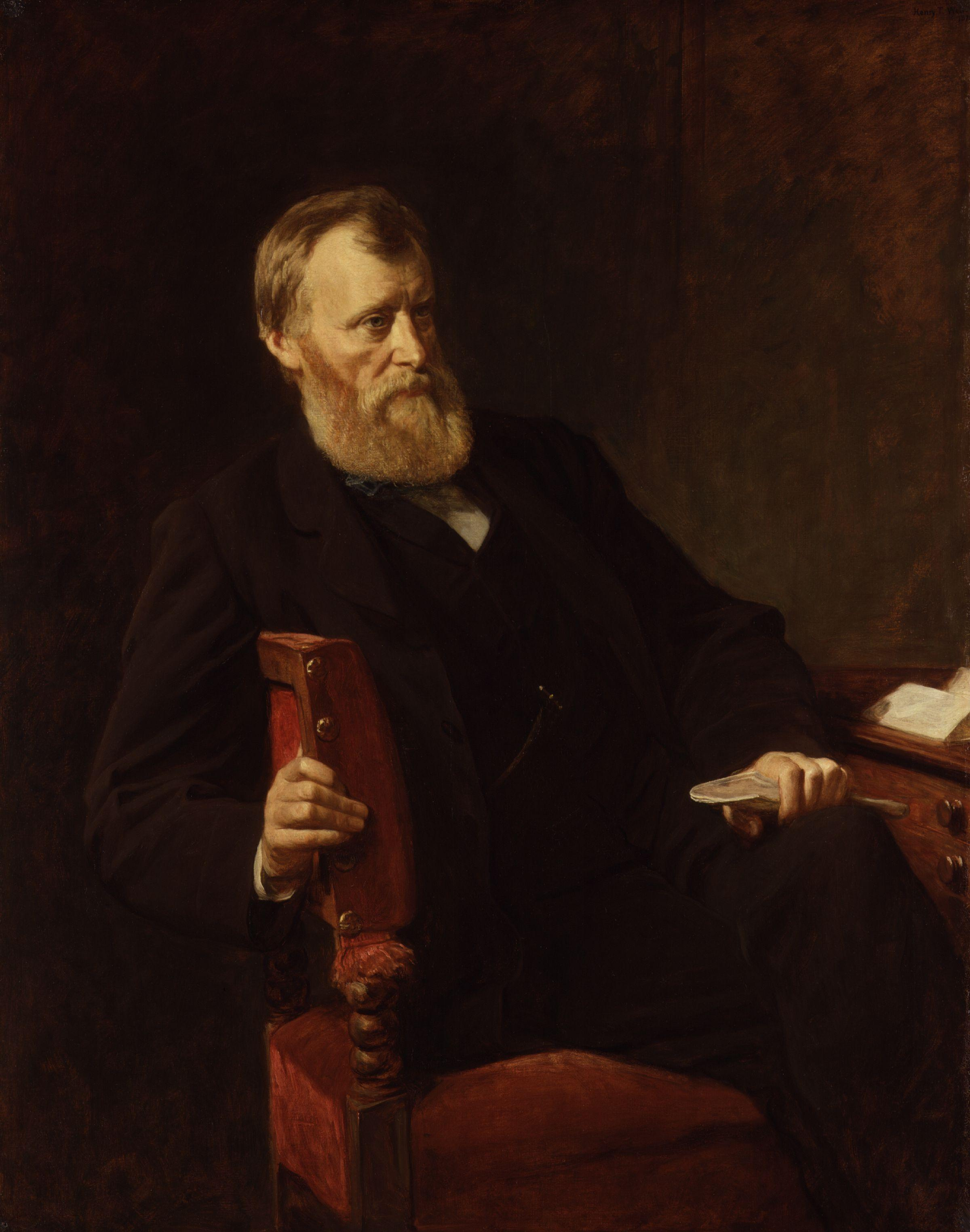 William Edward Forster, by Henry Tanworth Wells (died 1903), given to the National Portrait Gallery, London in 1921. All images in this batch have been confirmed as author died before 1939 according to the official death date listed by the NPG.